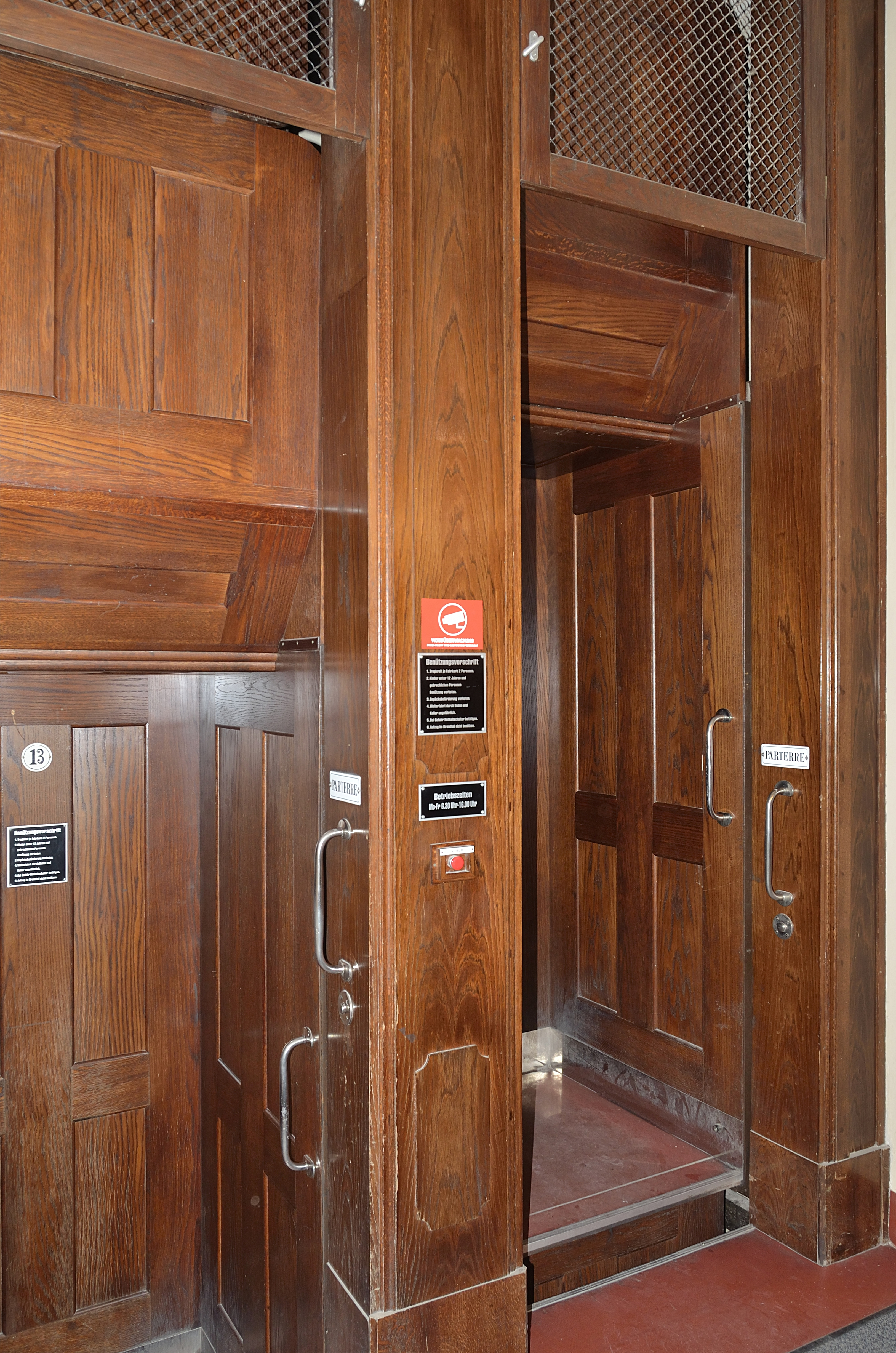 The paternoster in the Vienna town hall was built in 1918 by Viennese company Freissler.